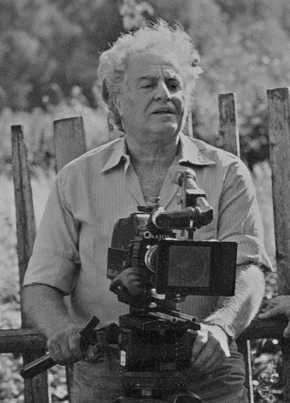 Juraj Šajmovič - Golet v údolí